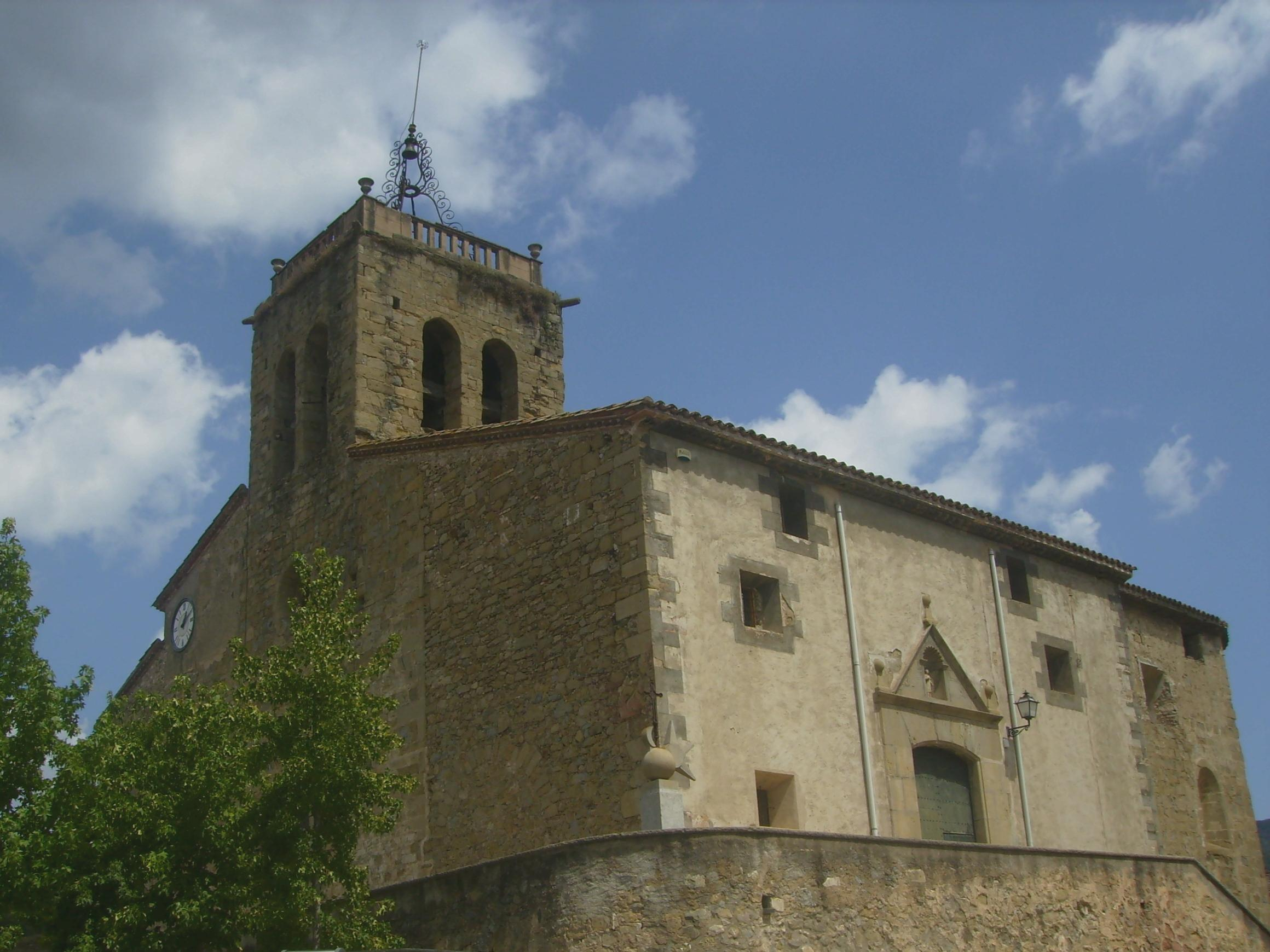 Church of Sant Esteve d'en Bas (Catalonia)